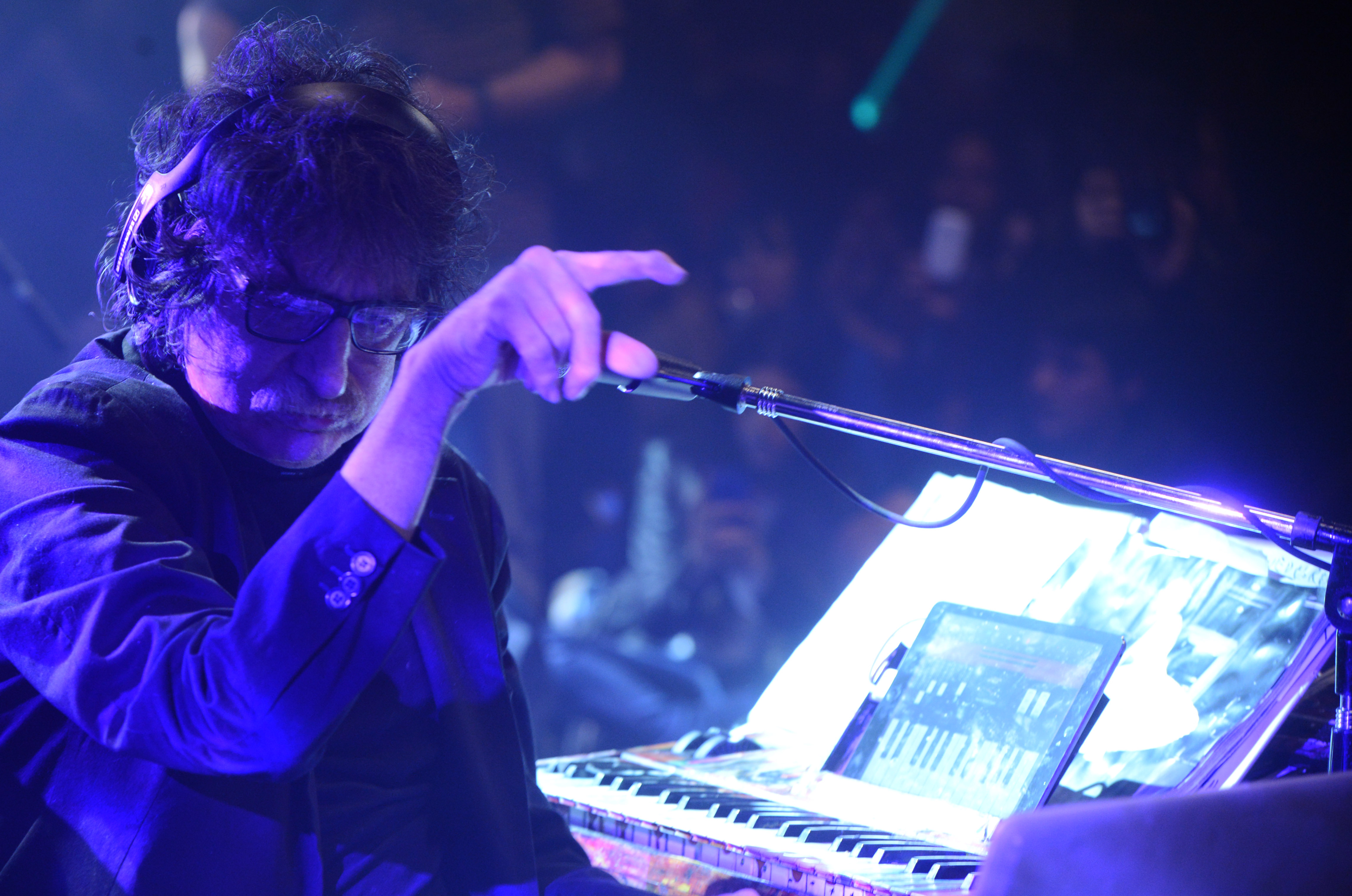 Charly Garcia. Homenaje Gustavo Cerati. 04.11.2014. Foto TVP 2014